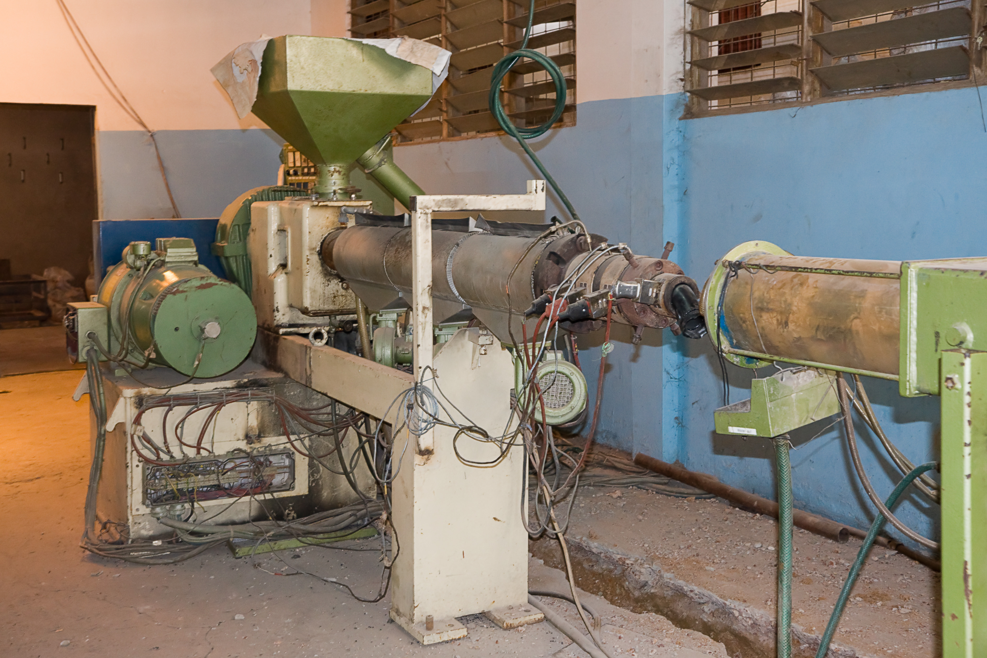 Pipe extrusion line in the only plastic factory in The Gambia. It doesn't run because of a cooling water leak.